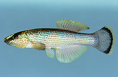 Northern studfish (Fundulus catenatus), nuptial male)